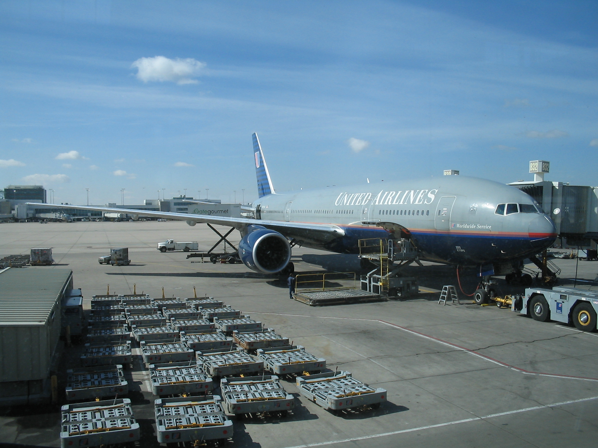 A plane being serviced at Denver International Airport. It is a United Airlines Boeing 777, probably a 777-200, being prepared for takeoff. It is flight number 902, which will depart for Dulles International Airport in about 36 minutes. David Benbennick took this photograph Friday, April 22, 2005 at 9:49 AM (local time).